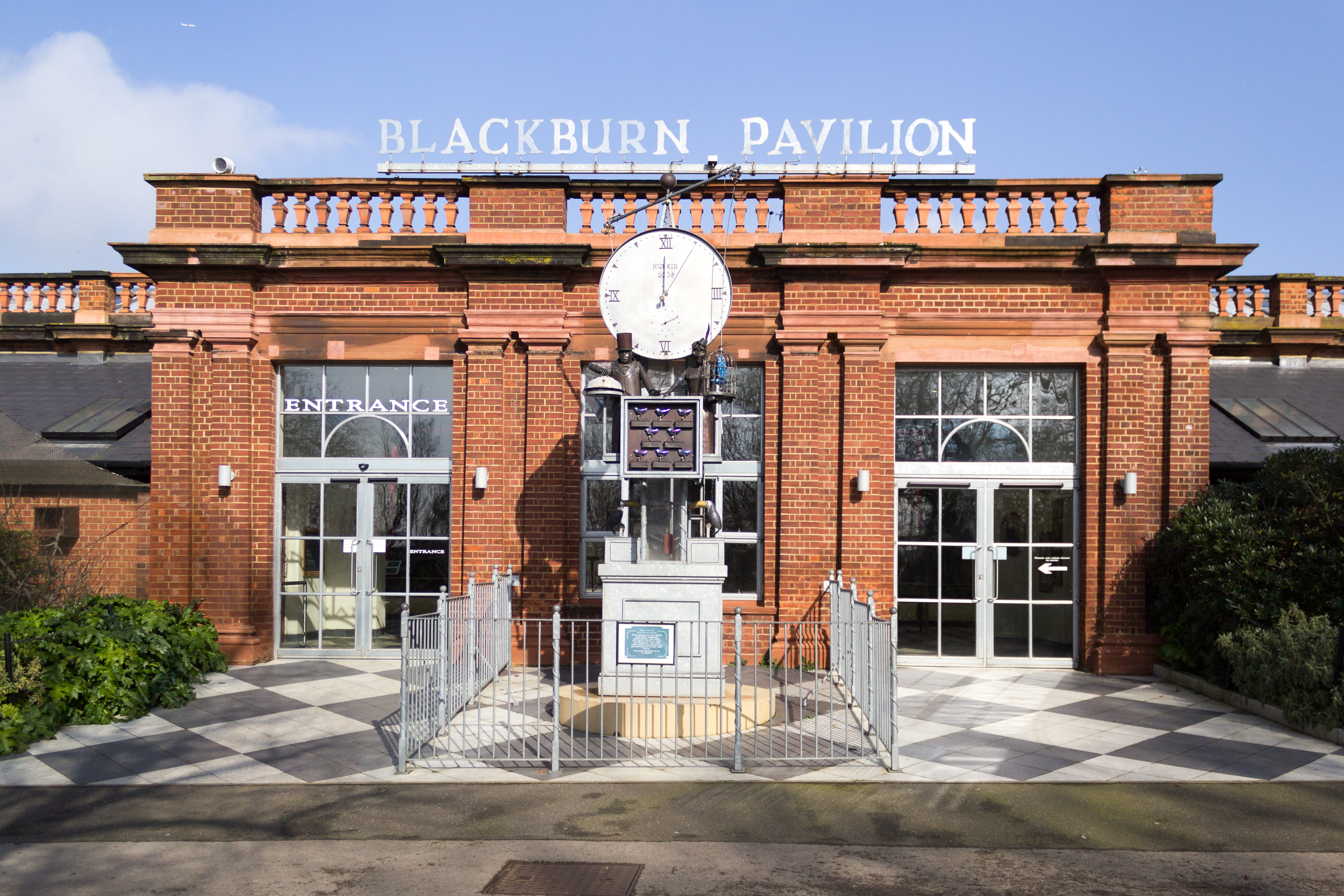 Blackburn Pavilion, London Zoo.